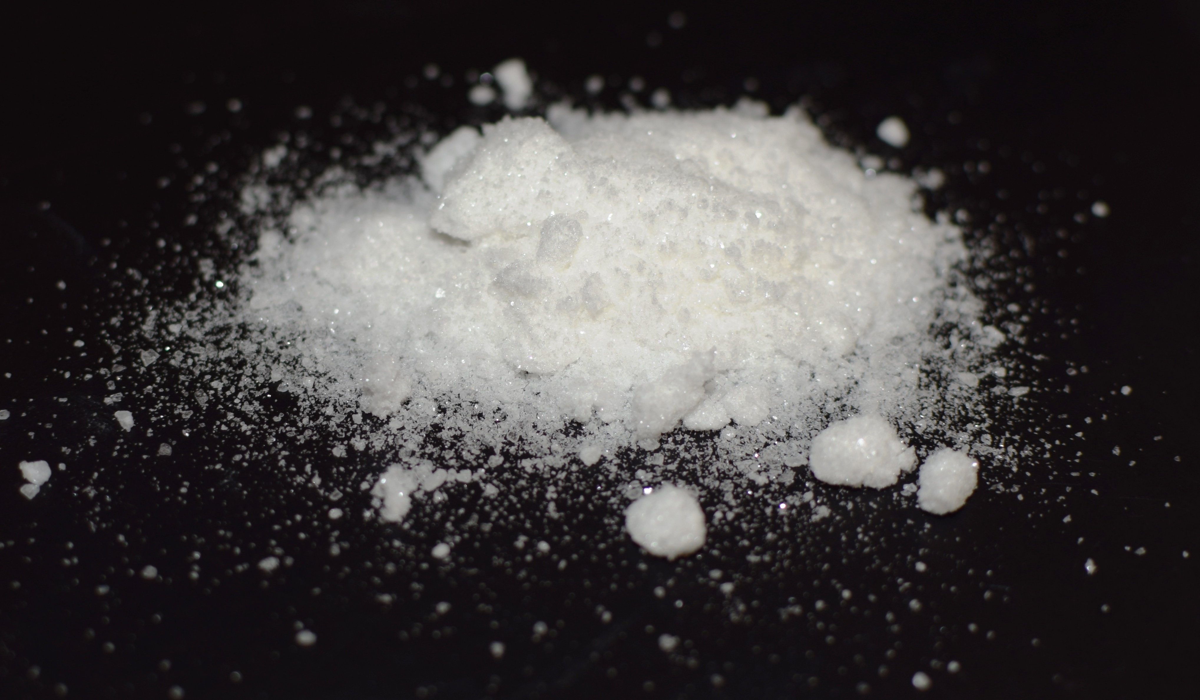 Phenylethylamine hydrochlorideLatviešu: Feniletilamīna hidrohlorīds